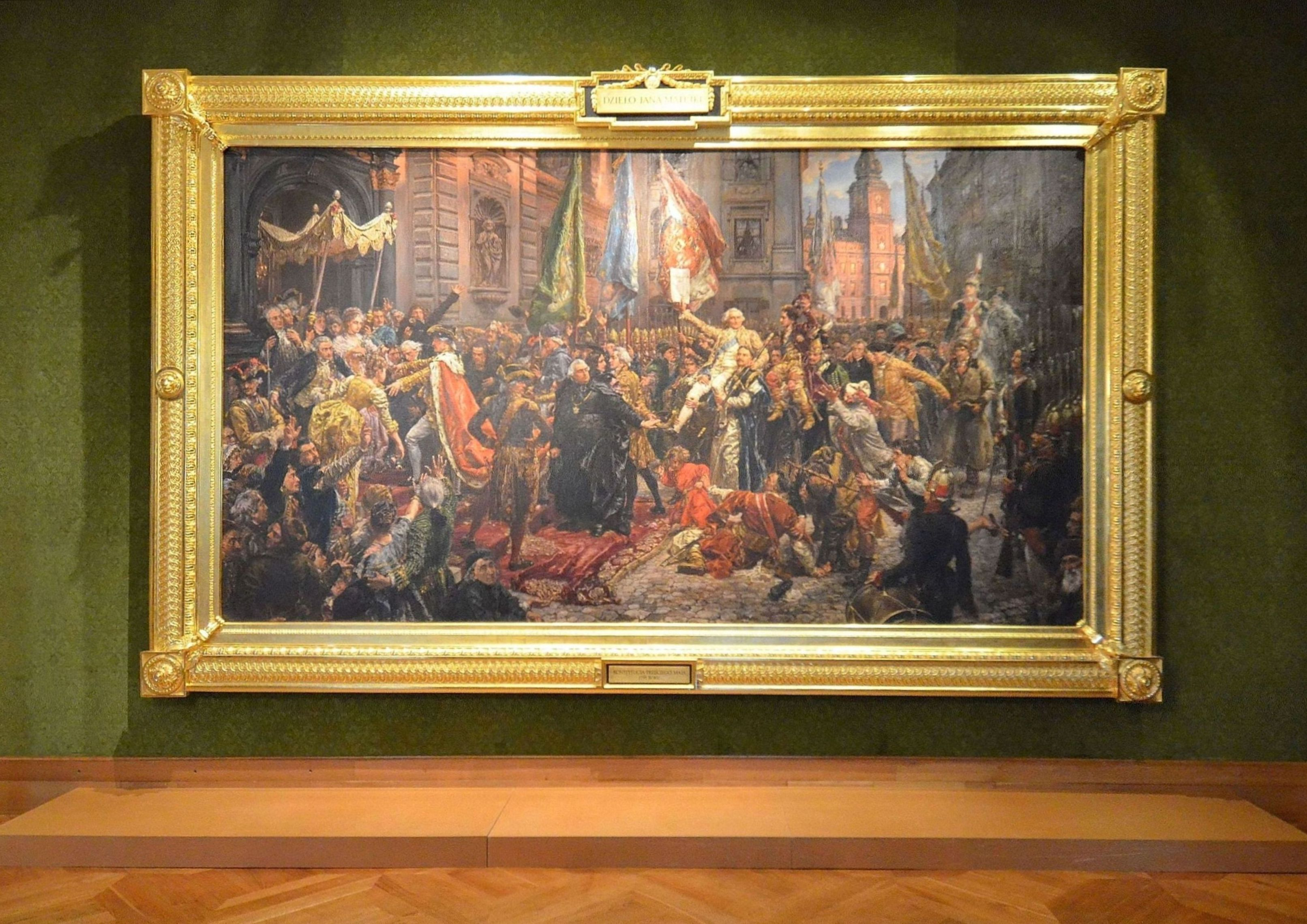 Konstytucja 3 Maja 1791 roku painting by Jan Matejko at the Royal Castle in Warsaw